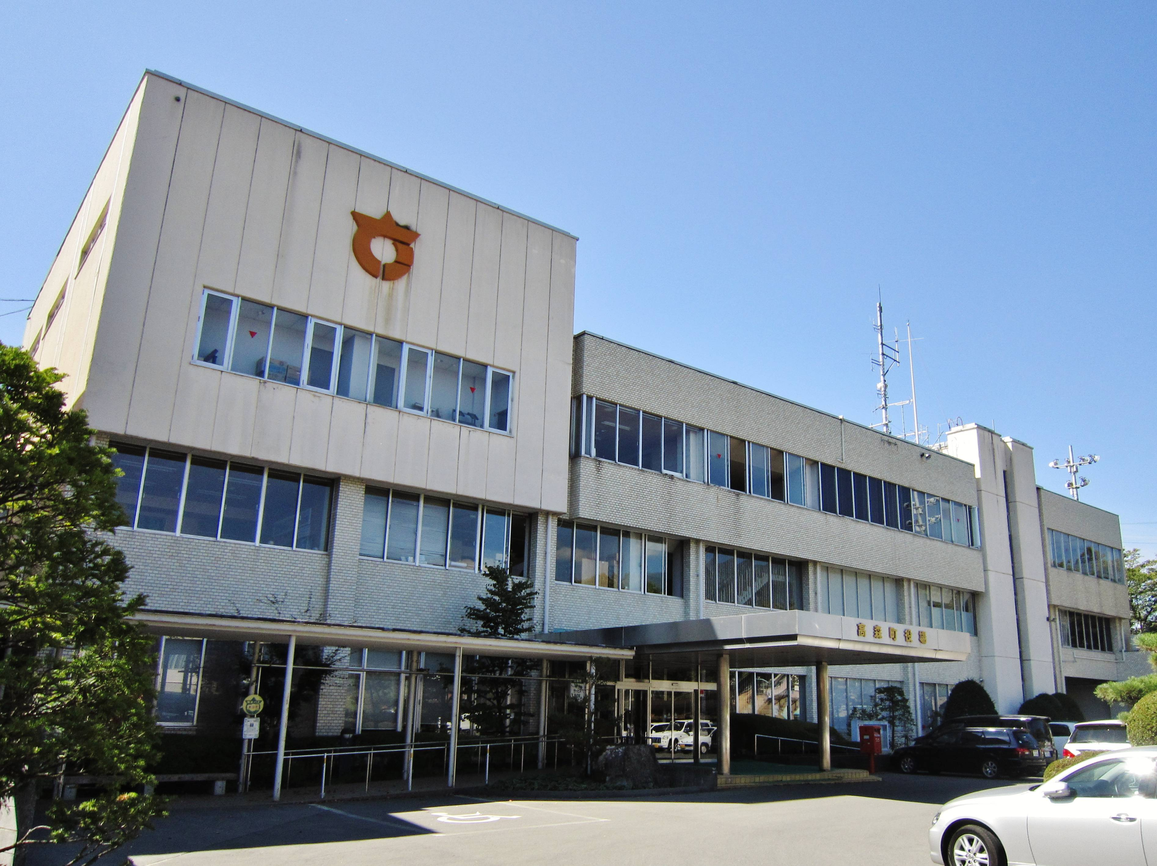 Takamori town office (Takamori, Nagano).